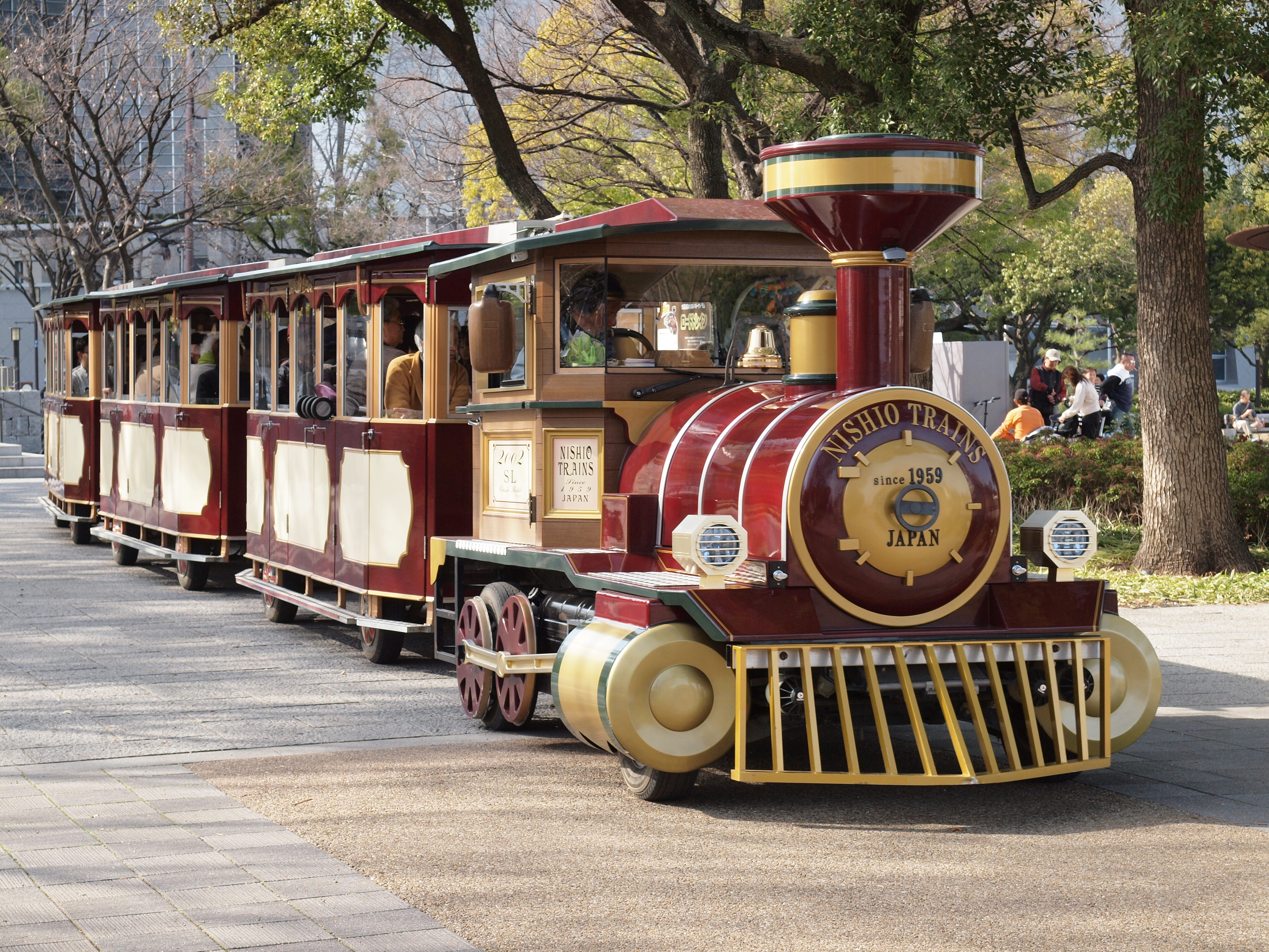 Road Train, the Osaka Castle Park in Osaka, Japan